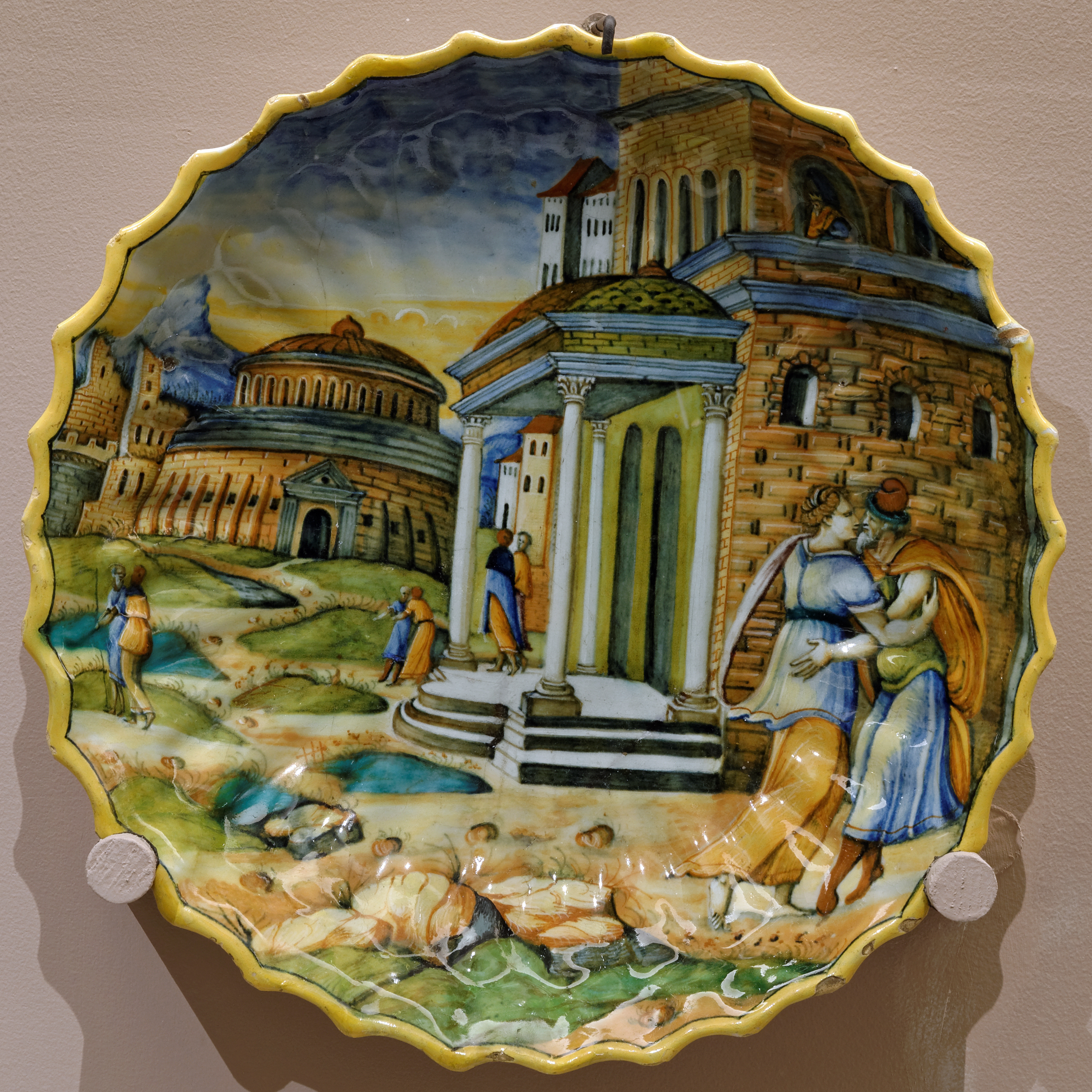 Abimelech spying on Isaac and Rebekah; decorated dish with serrated edge; majolica ceramics, from Urbino or Lyon